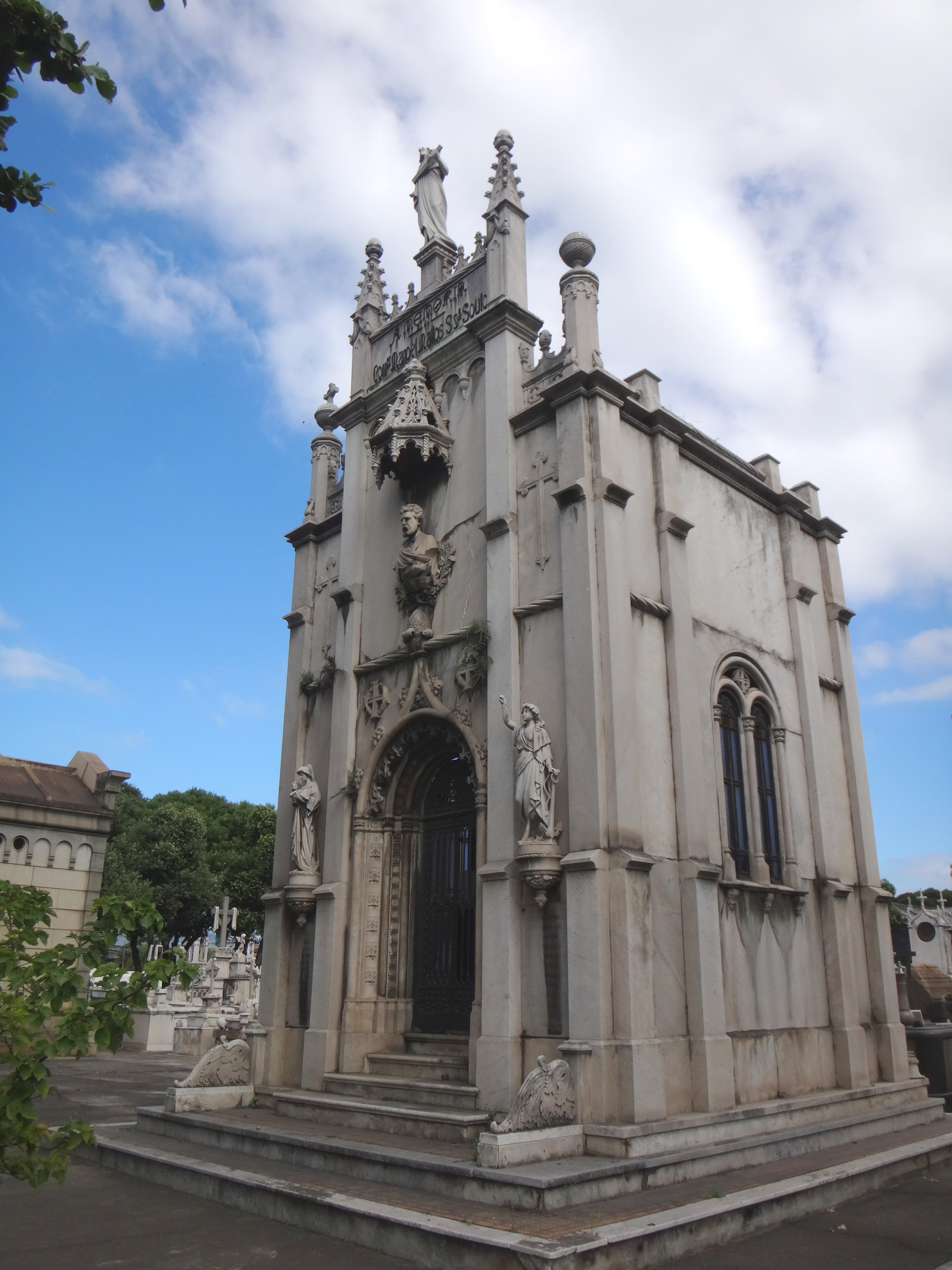 Cemitério da Venerável Ordem do Carmo